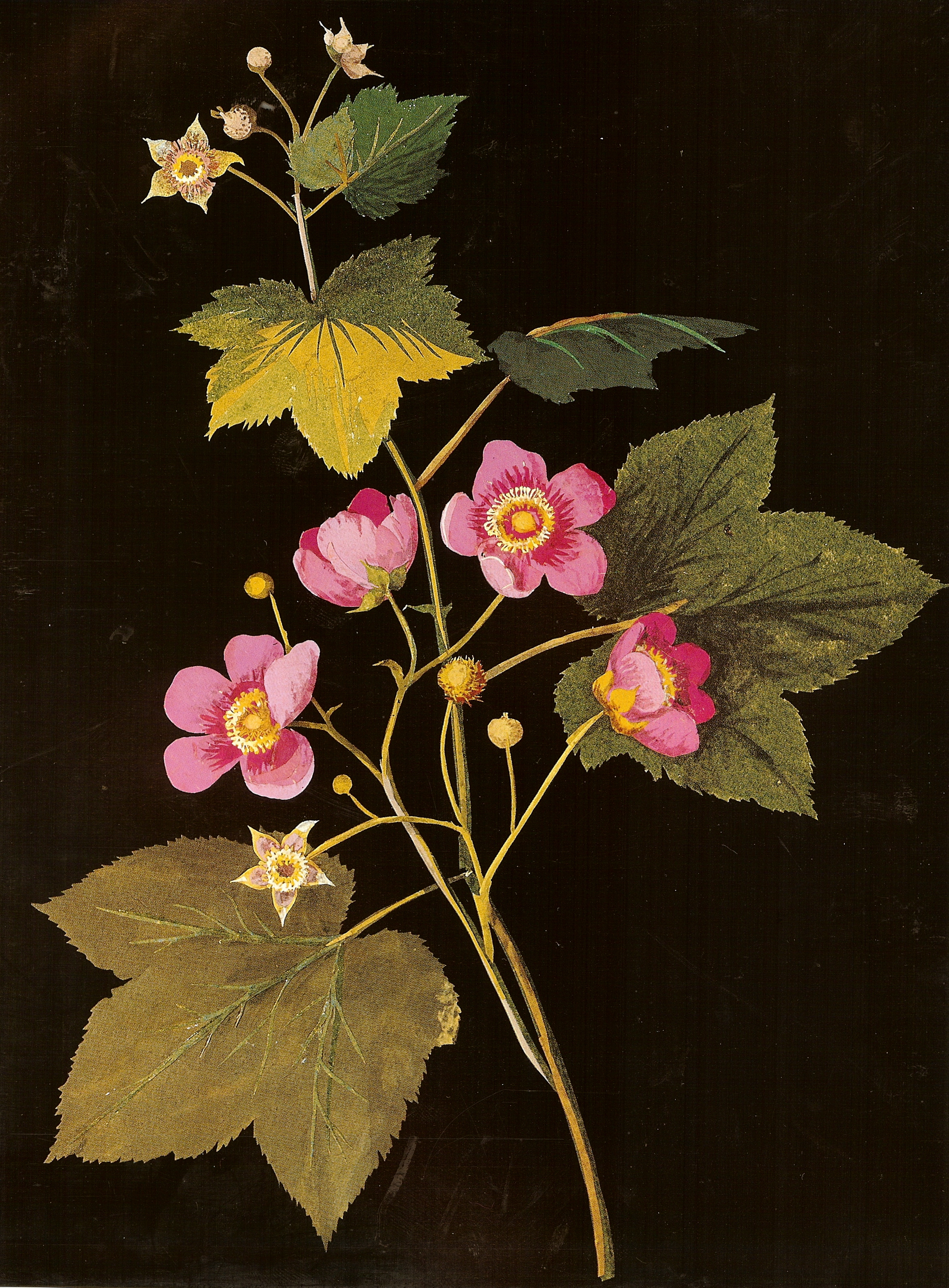 Rubus odoratus L. - Paper collage botanical